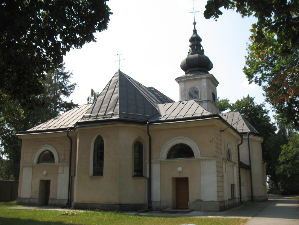 Church of Haniska pri Košiciach